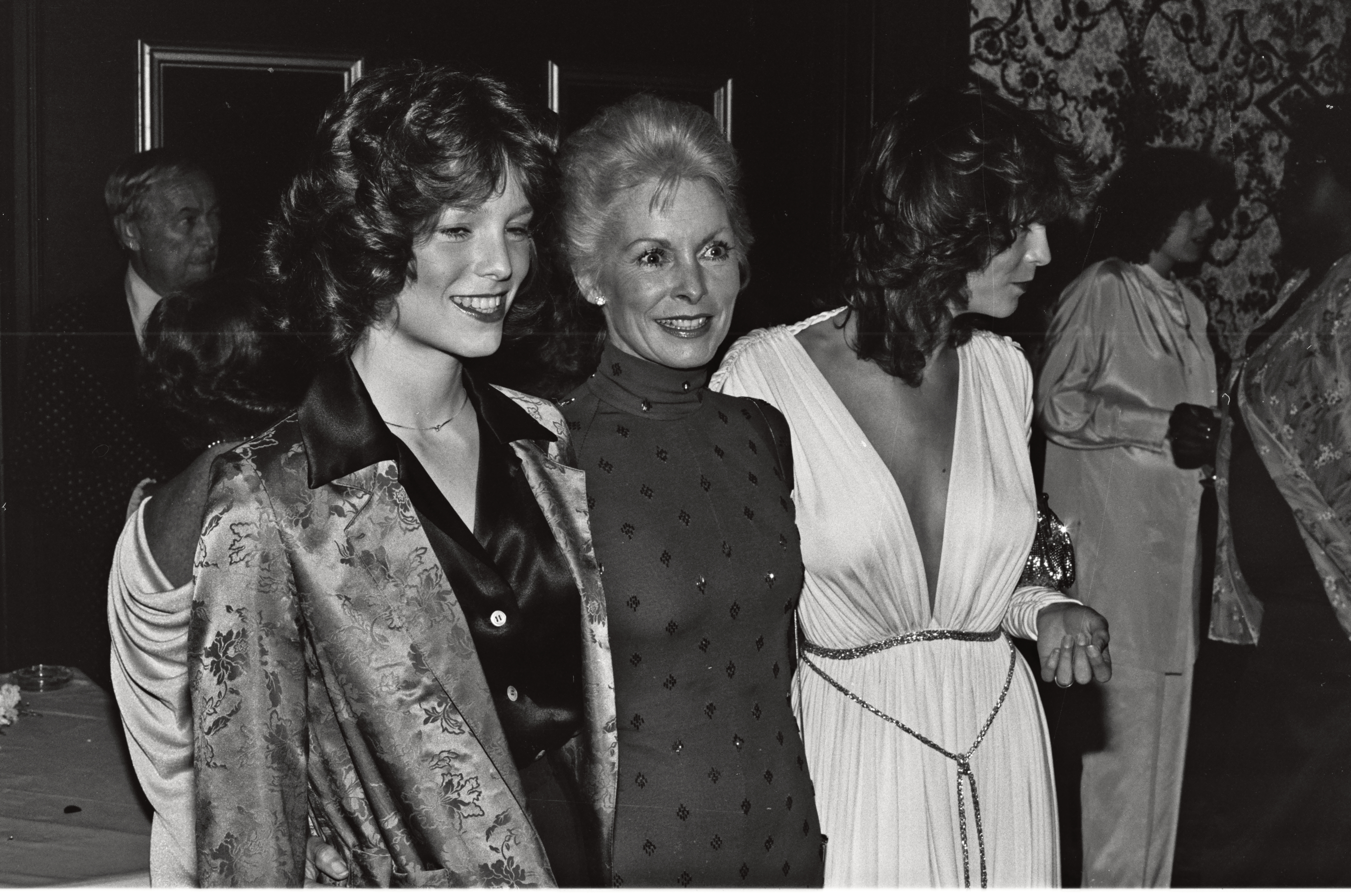 Janet Leigh and daughters Kelly Curtis (left) and Jamie Lee Curtis at the National Film Society convention, May 1979. NOTE: Permission granted to copy, publish, broadcast or post any of my photos, but please credit "photo by Alan Light" if you can. Thanks